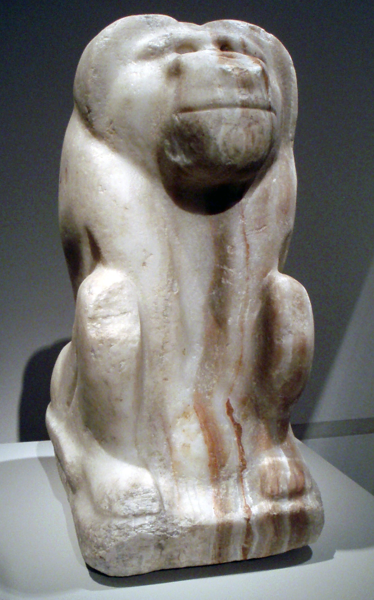 Photo of an alabaster statue of a baboon divinity. Inscribed on its base is the hieroglyphic name of Pharoah Narmer. Circa 3100 B.C. Photo taken at the Altes Museum, Berlin, later merged and cropped using PhotoShop. Catalog number: 22607.